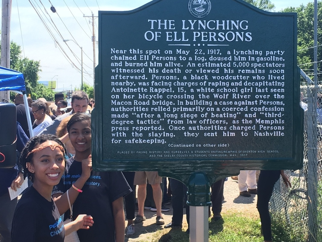 The May 22, 2017, dedication of the Ell Persons historical marker in Memphis, Tennessee.